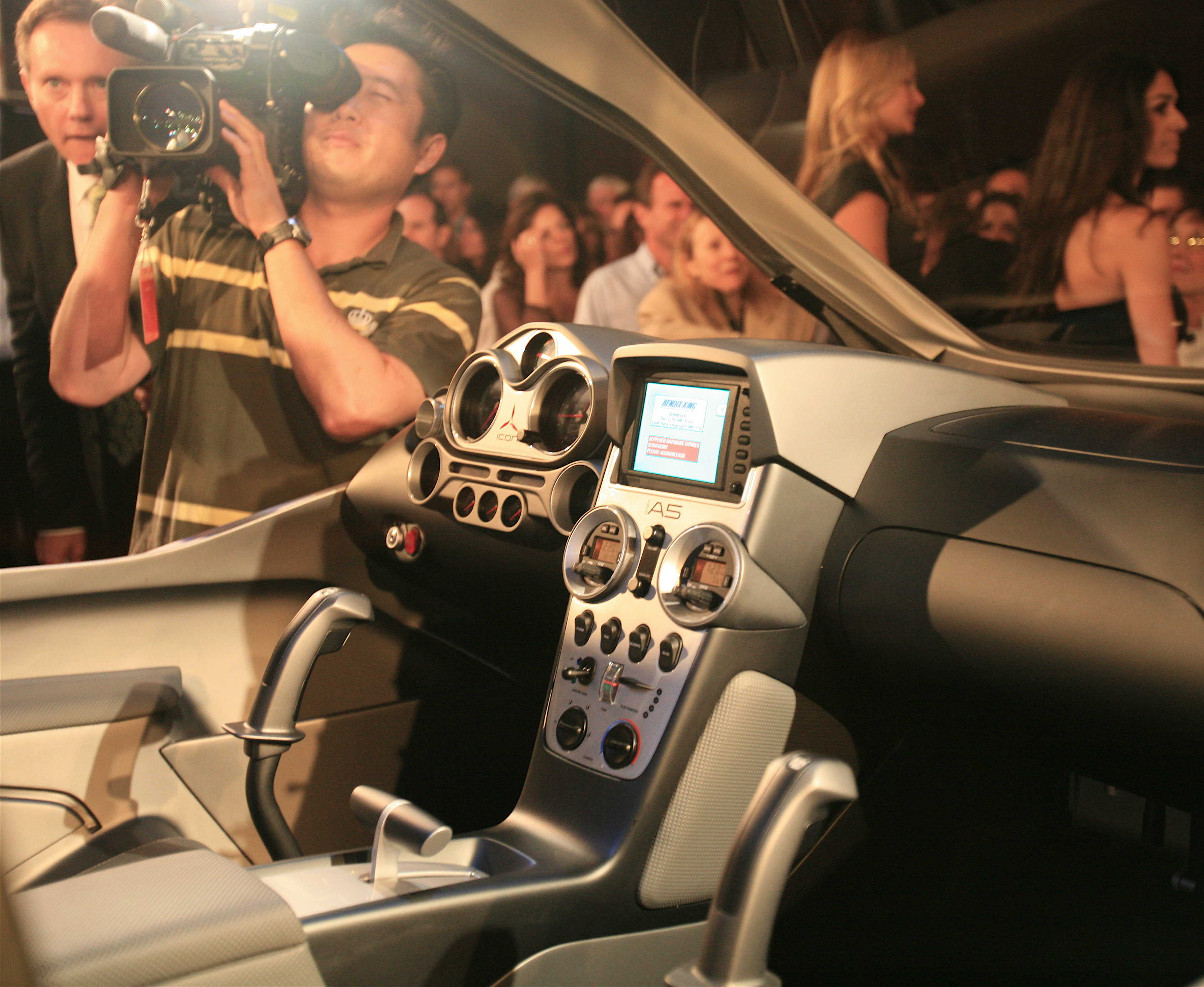 Icon Aircraft held a debut party last night for the A5 amphibious sport plane in LA, our first chance to see the sea plane. The FAA recently introduced a new sport pilot license, requiring only 20 hours of training for the recreational aviator. Imagine the motor boating crowd hopping around from lake to lake. (It does have a parachute if you freak out and decide that a regular landing is not possible.) In his opening remarks, CEO Kirk Hawkins quoted Orville Wright: "The exhilaration of flying is too keen, the pleasure too great, for it to be neglected as a sport." Icon hired Nissan and BMW as design consultants, and this is the auto-inspired cockpit. (Funny thing… with a DSLR in hand, it’s easy to blend in with the press for early access ;-)